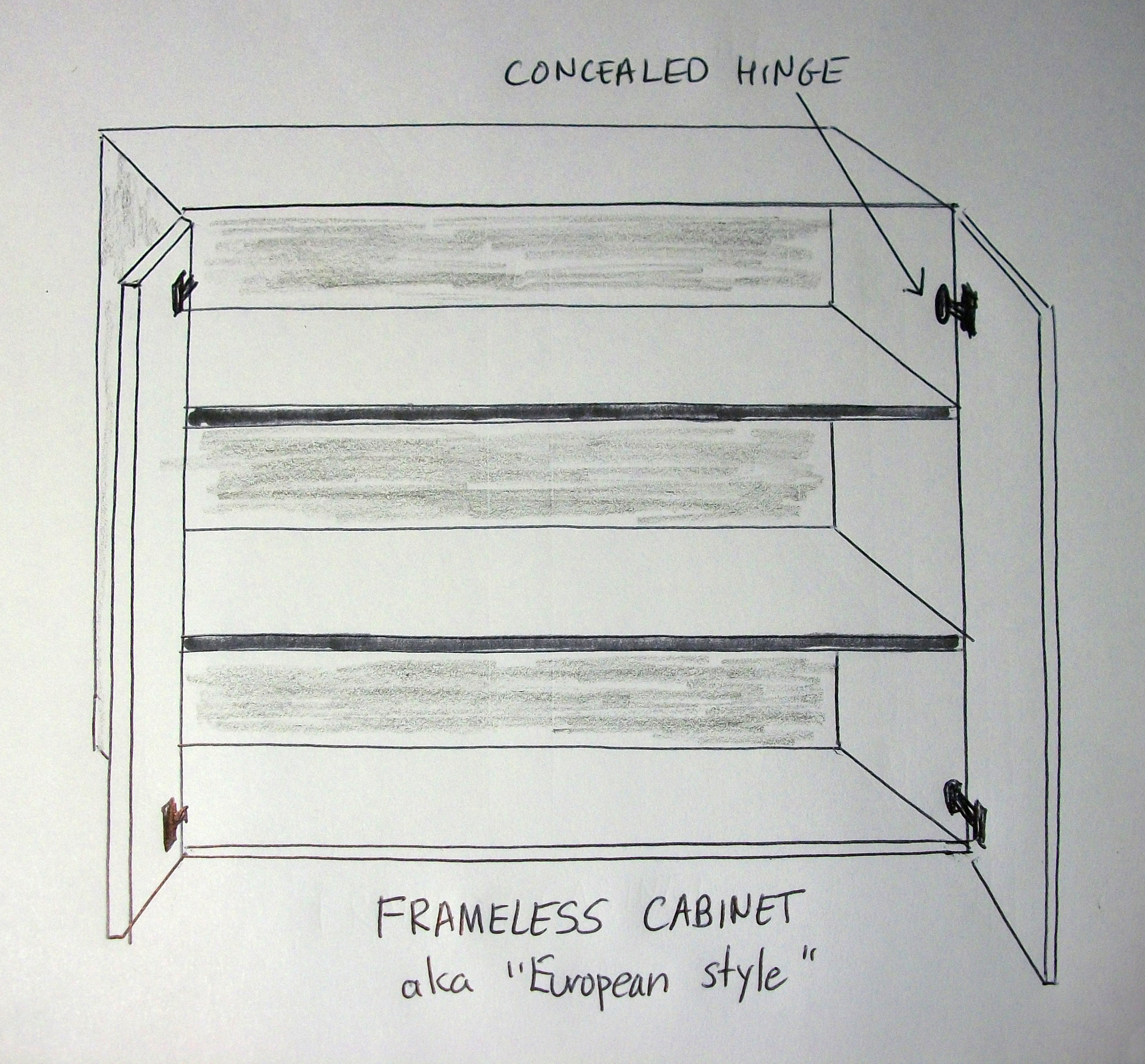 Drawing of a frameless version of kitchen cabinets. They're also called "European style". Then I took a photograph of my drawing.